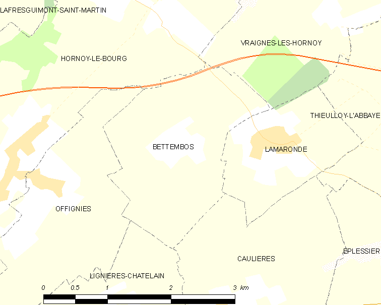 Map of French municipality Bettembos